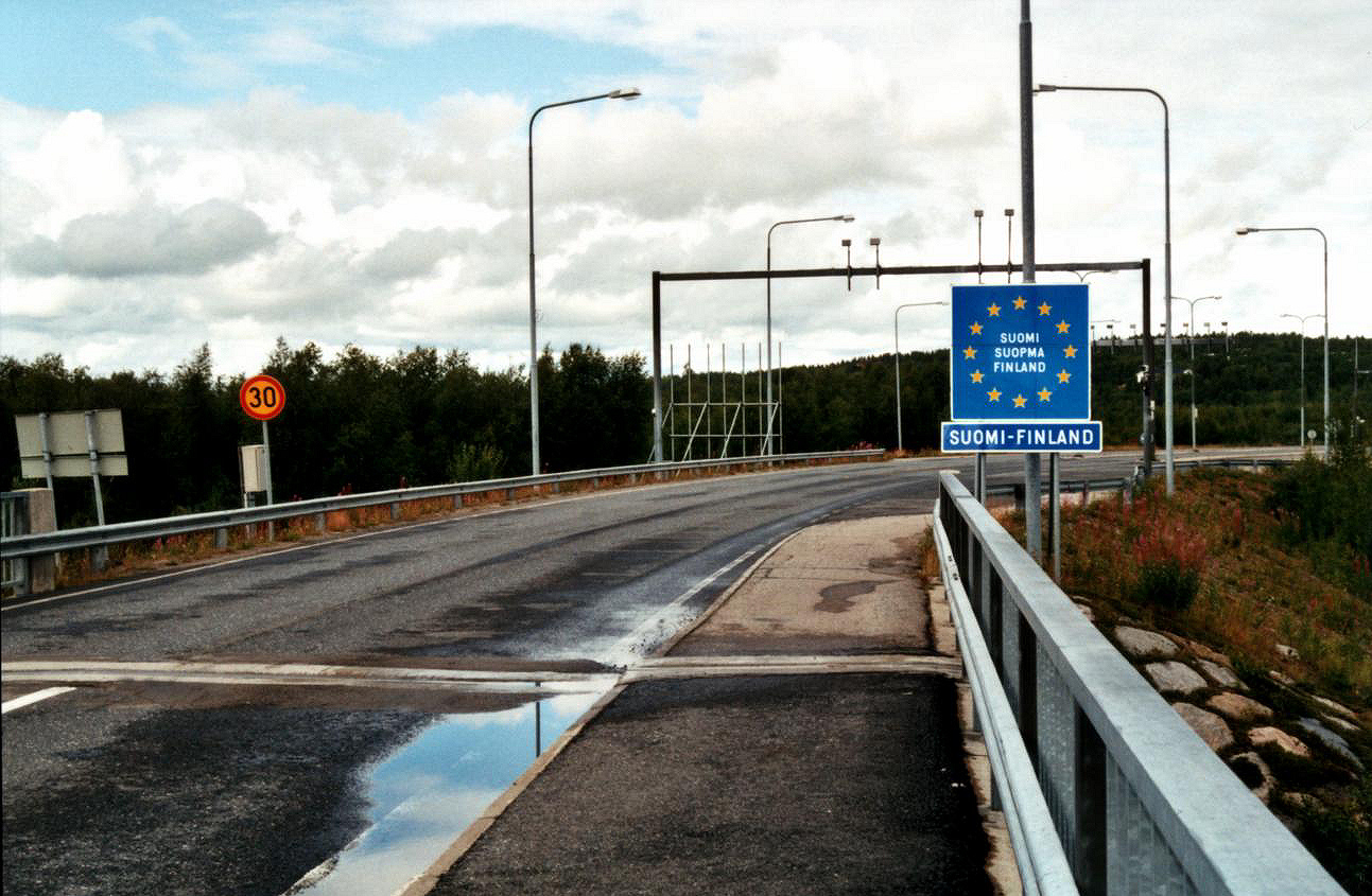 Finnish–Swedish border in Kaaresuvanto